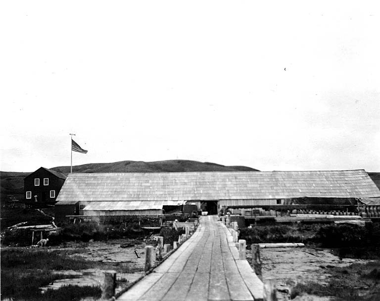 From John Cobb field notebook: A.P.A. saltery at Egushik . On verso of image: A.P.A. Saltery , Egushik River, Alaska, 1917 Subjects (LCTGM): Fishing industry--Alaska--Igushik River Subjects (LCSH): Alaska Packer's Association; Salmon fisheries--Alaska--Igushik River; Salmon--Preservation--Alaska--Igushik River